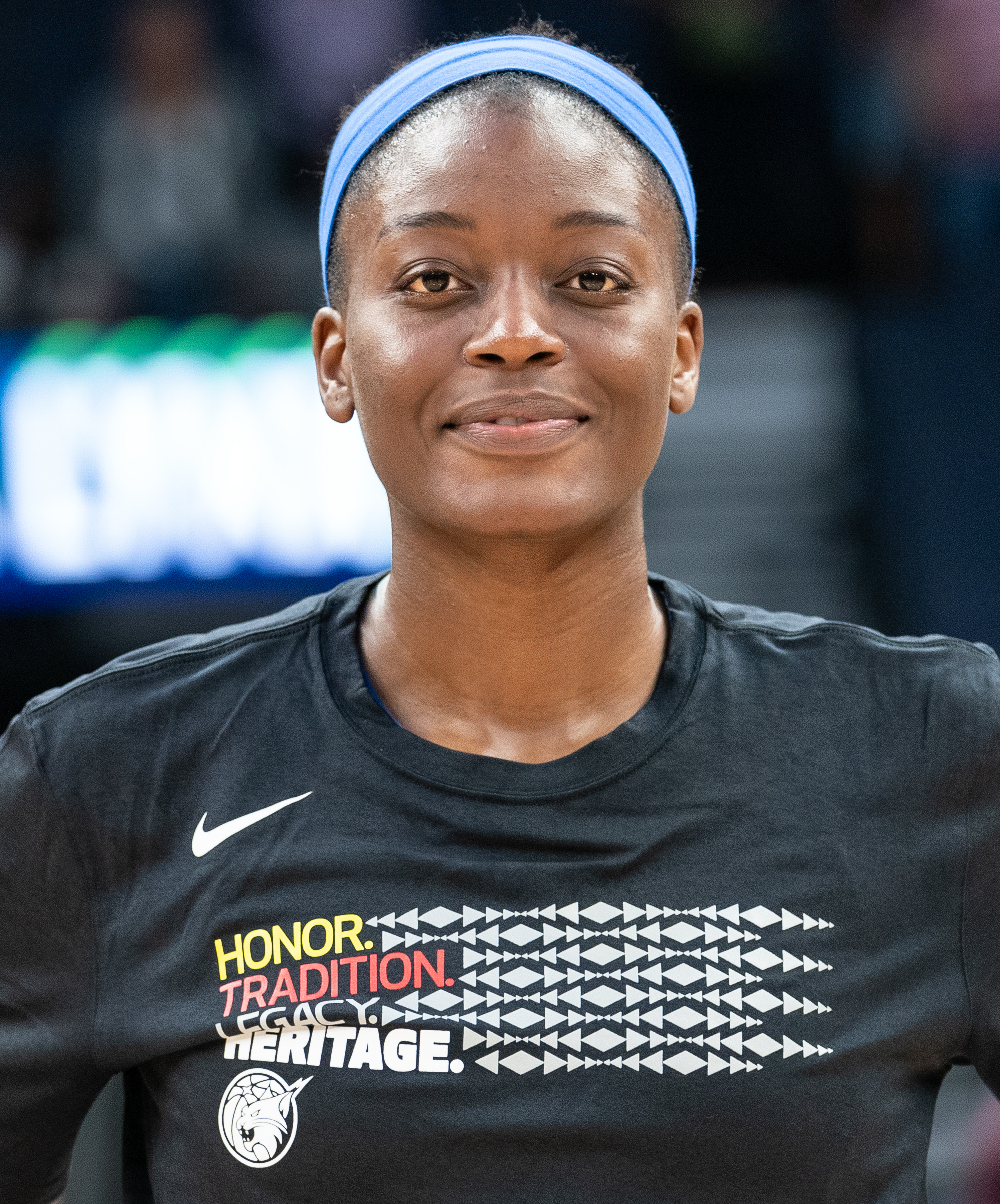 Minnesota Lynx player, Temi Fagbenle before the start of a game